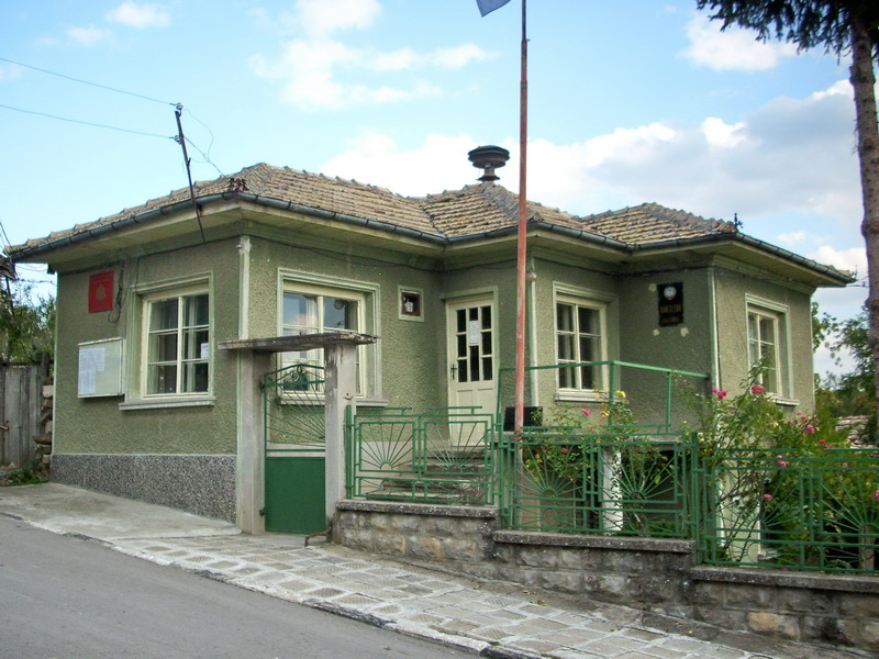 Mayor's office in village Baba Tonka, Bulgaria